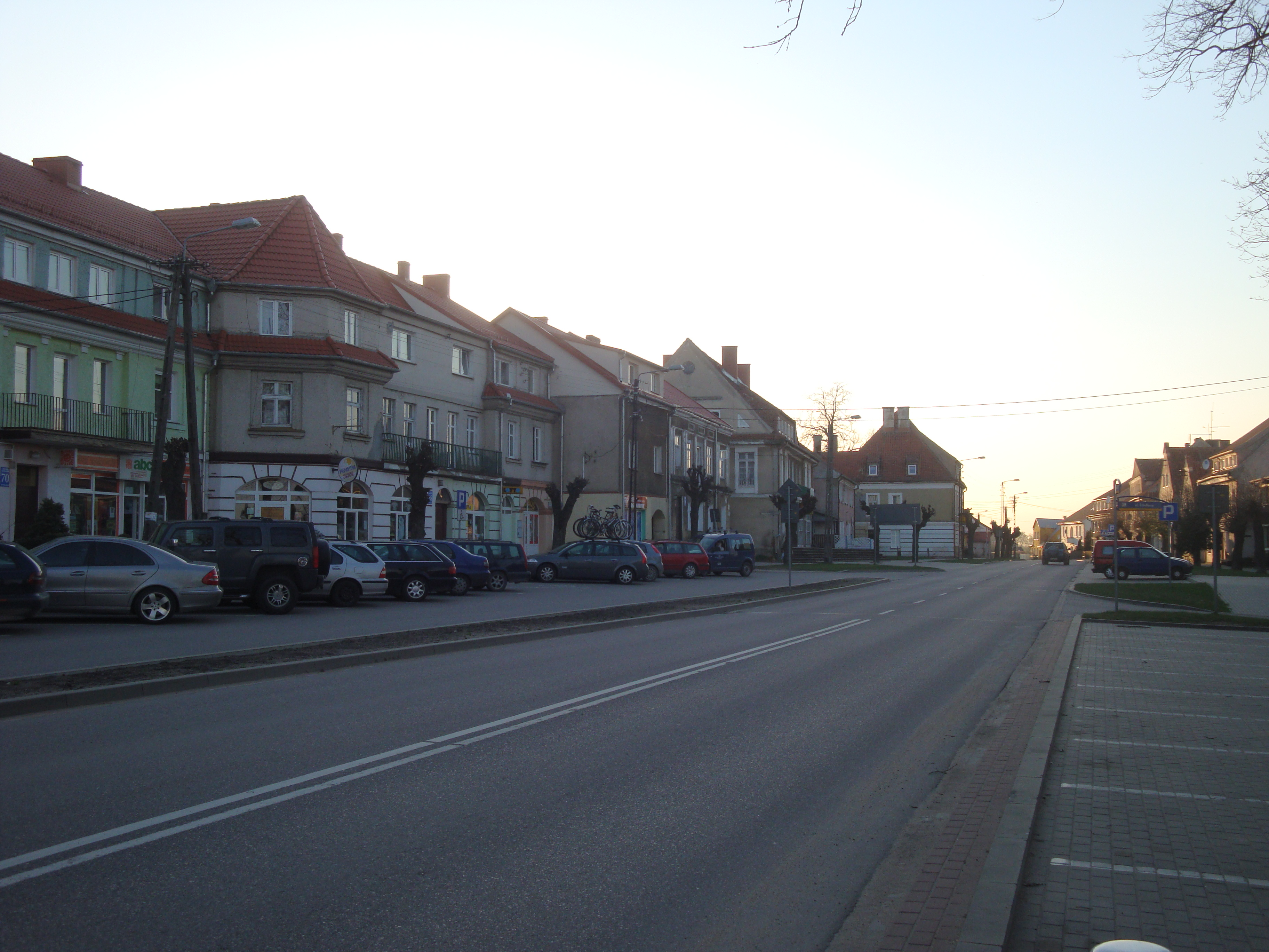 Wydminy-village in Warmian-Masurian Voivodeship, Poland